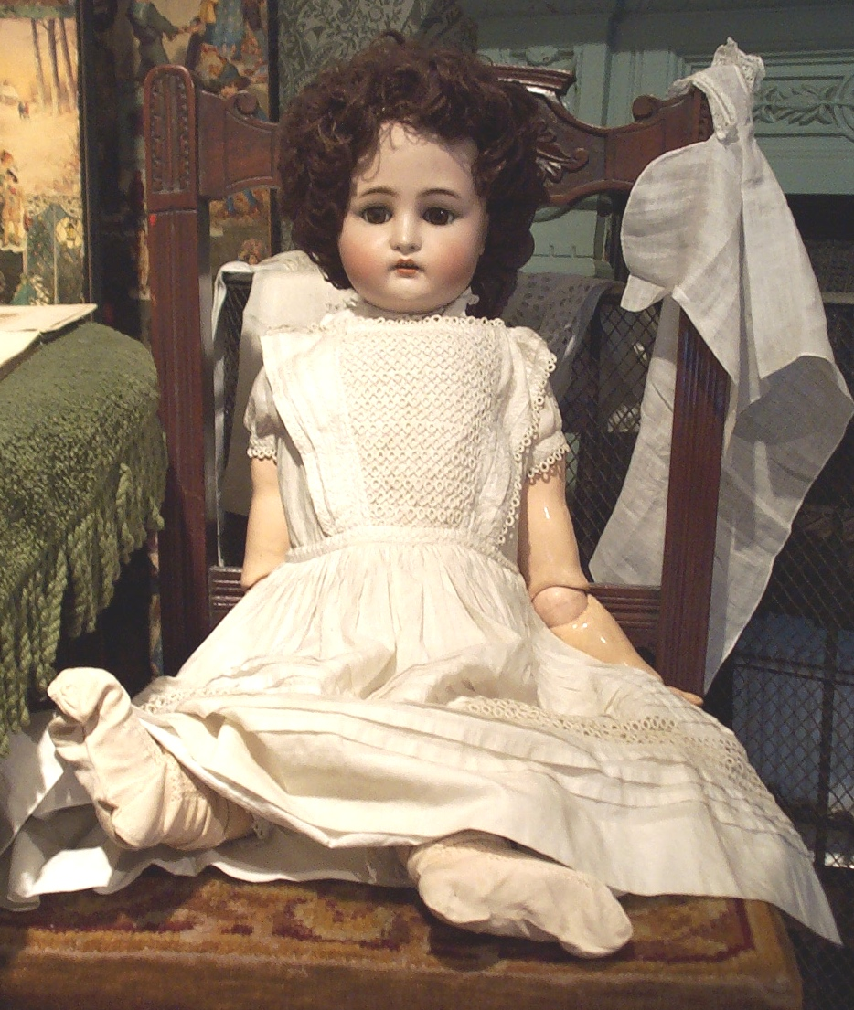 Early 20th century doll, called "Queenie" on permanent display in Bedford Museum. Made by Kammer & Reinhardt with a head by Simon & Halbig. The scale can be seen from the full sized chair it is seated on.